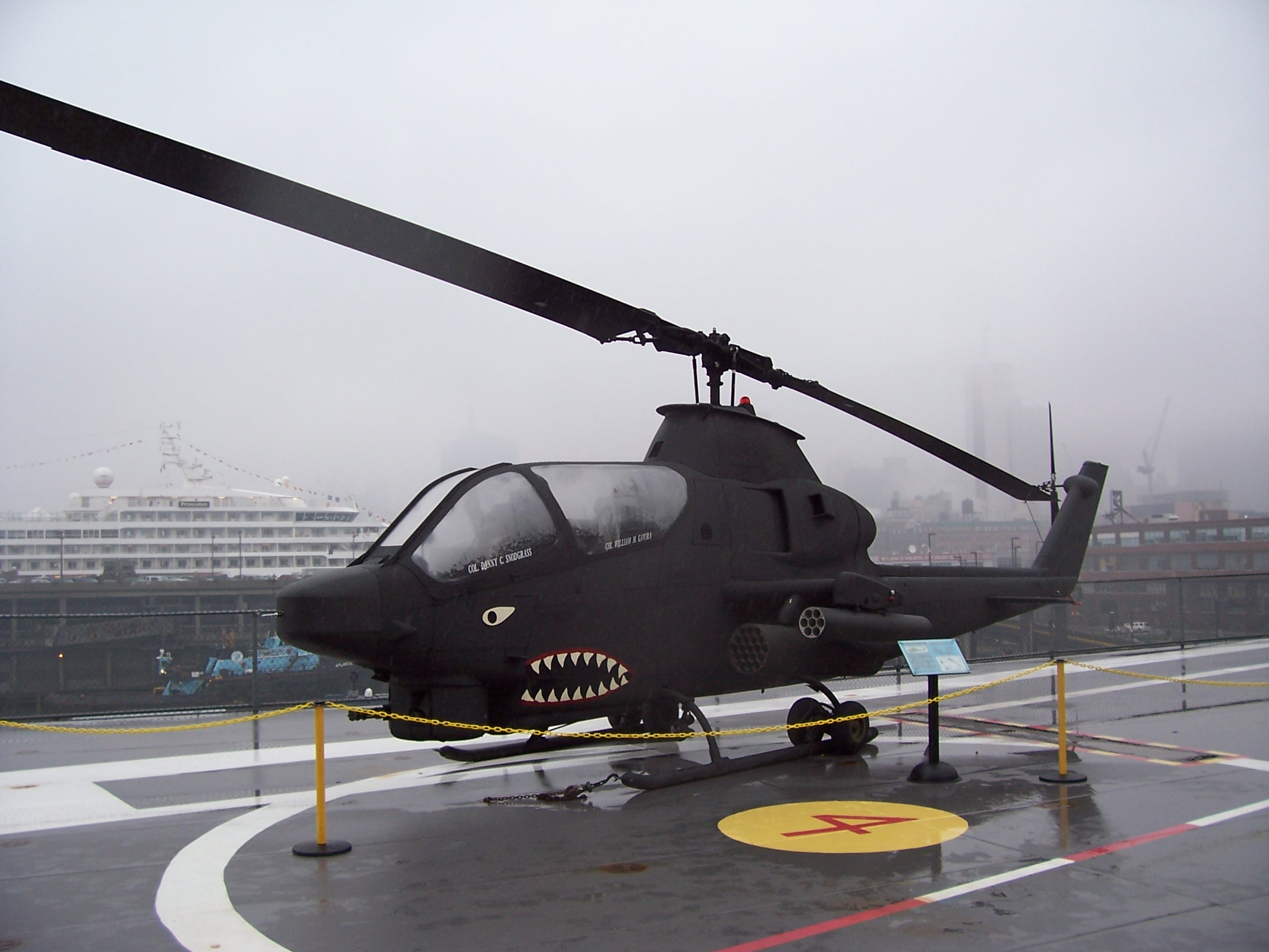 on the flight deck of USS Intrepid (now Sea-Air-Space Museum in New York City) an AH-1 Cobra attack helicopter in the foreground